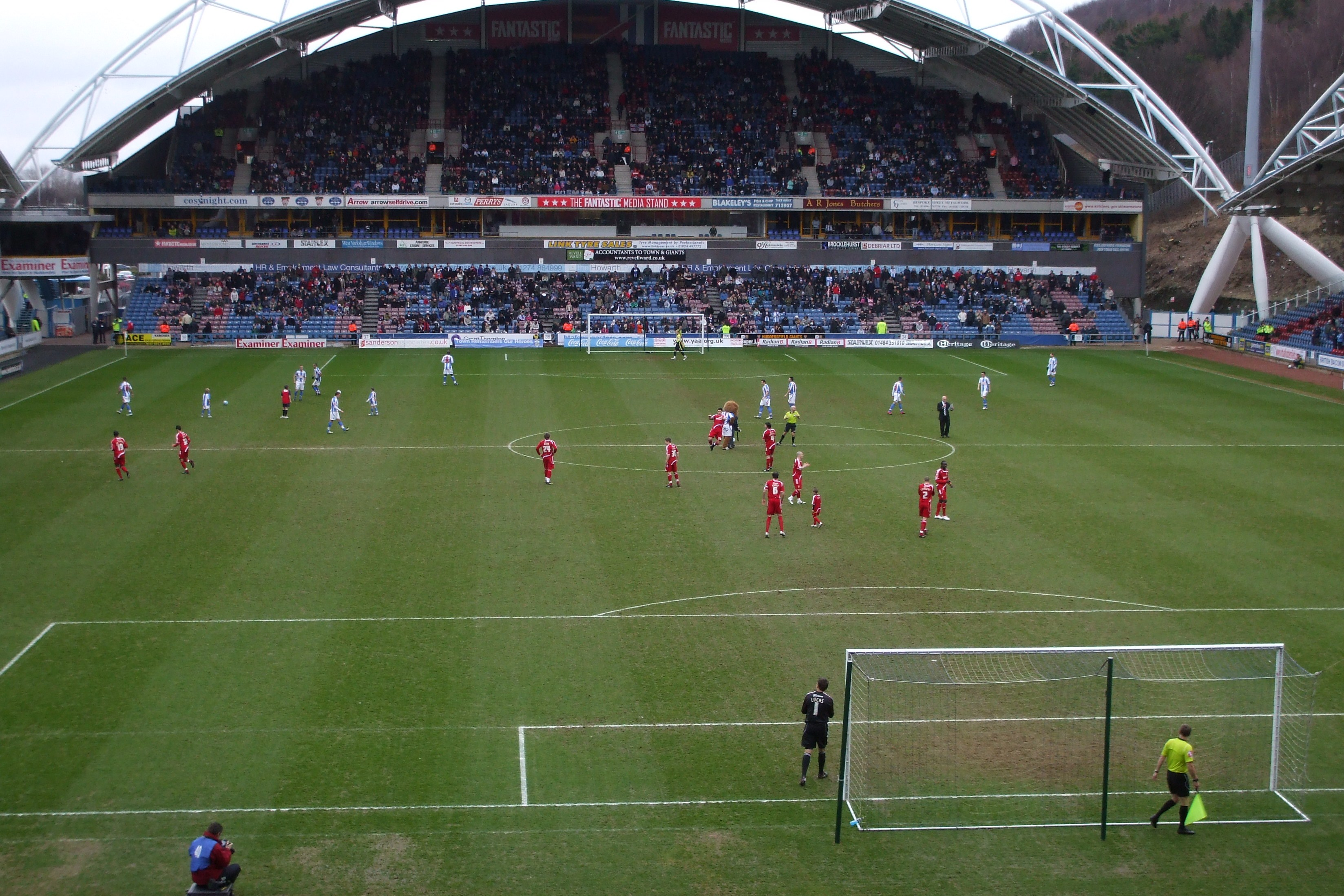 Big Match Moments before kick off, two giants of League 1 prepare to do battle. Huddesfield Town vs Swindon Town.